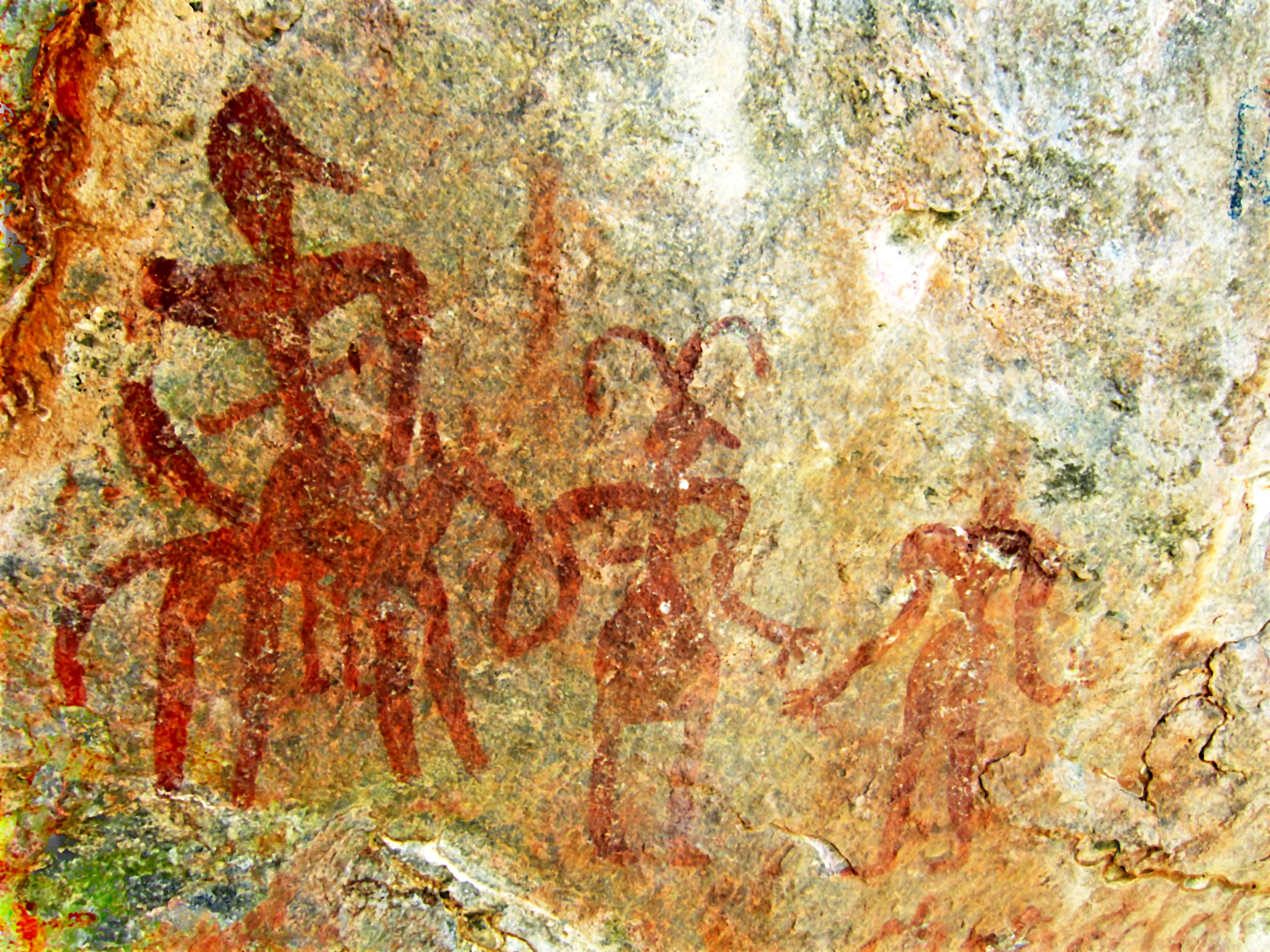 edited